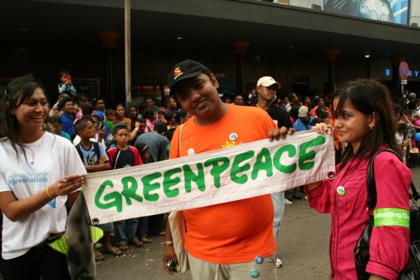 GreenPeace March 2009 - Amorita Maharaj, Rajneel Pratap and Clare